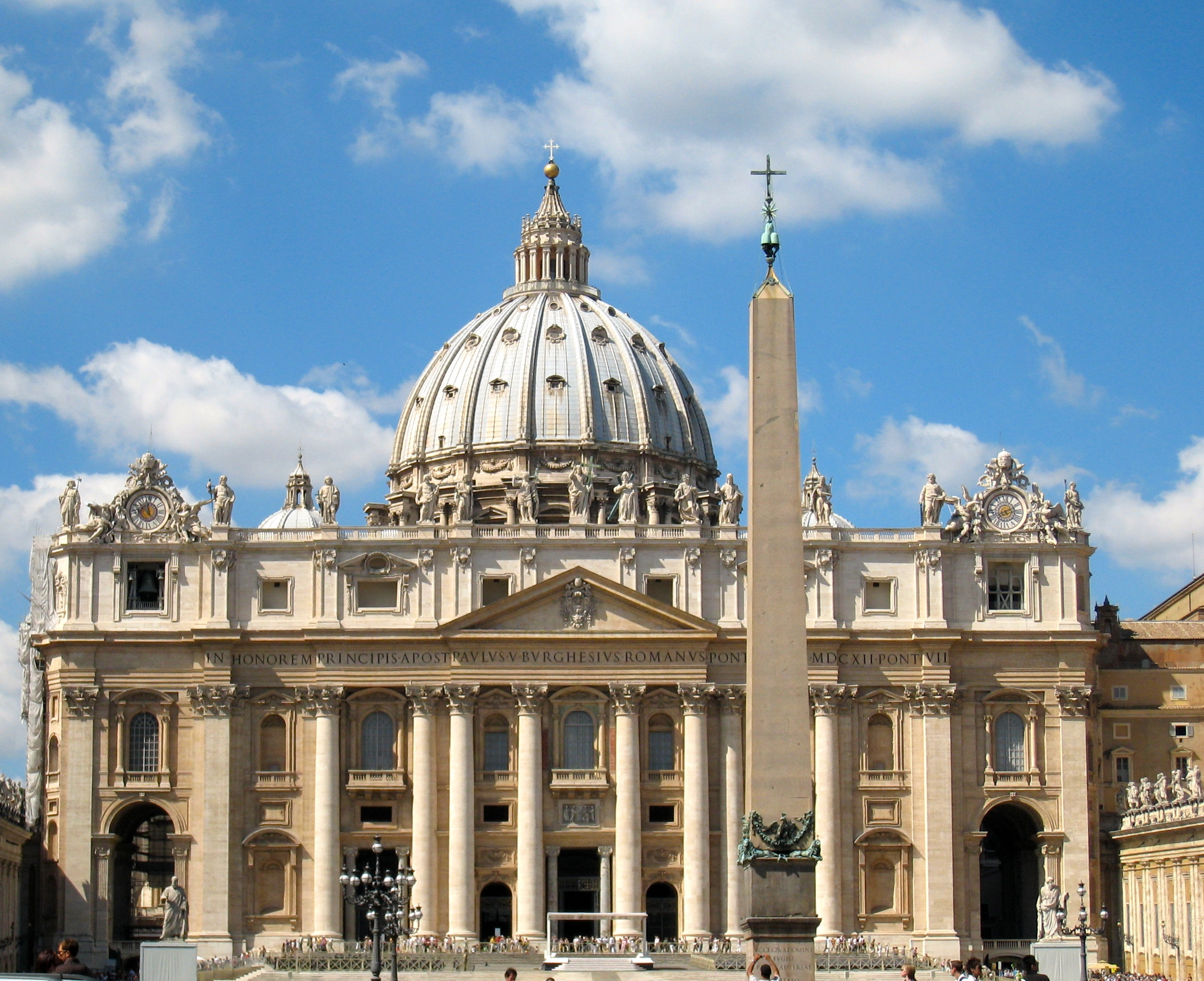 St. Peter's Basilica in Vatican City